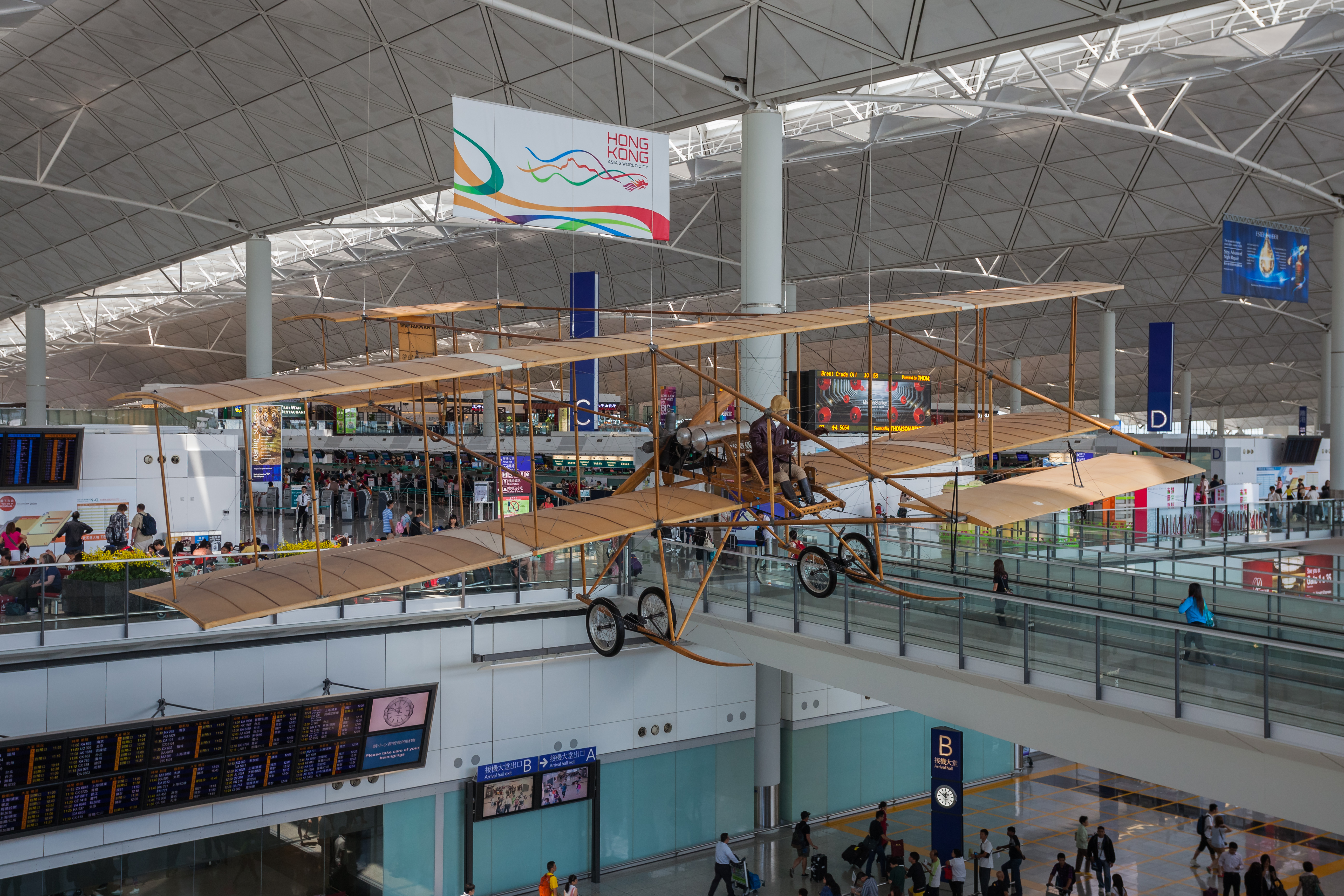 Hong Kong Airport